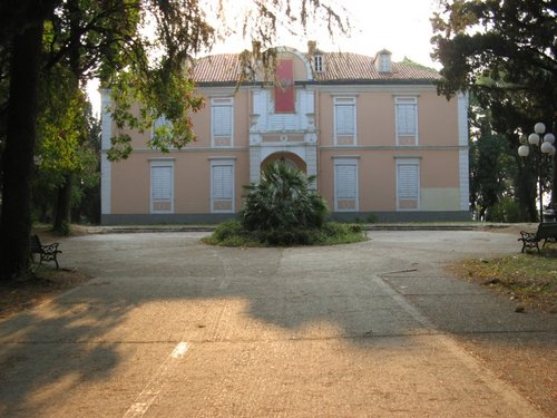 King Nikola's winter palace in Podgorica.